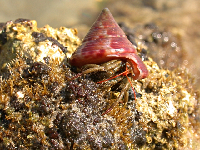 Pagurus longicarpus within Calliostoma sp. shell.